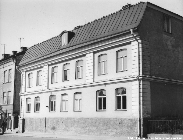 The old hospital in Örebro, Sweden